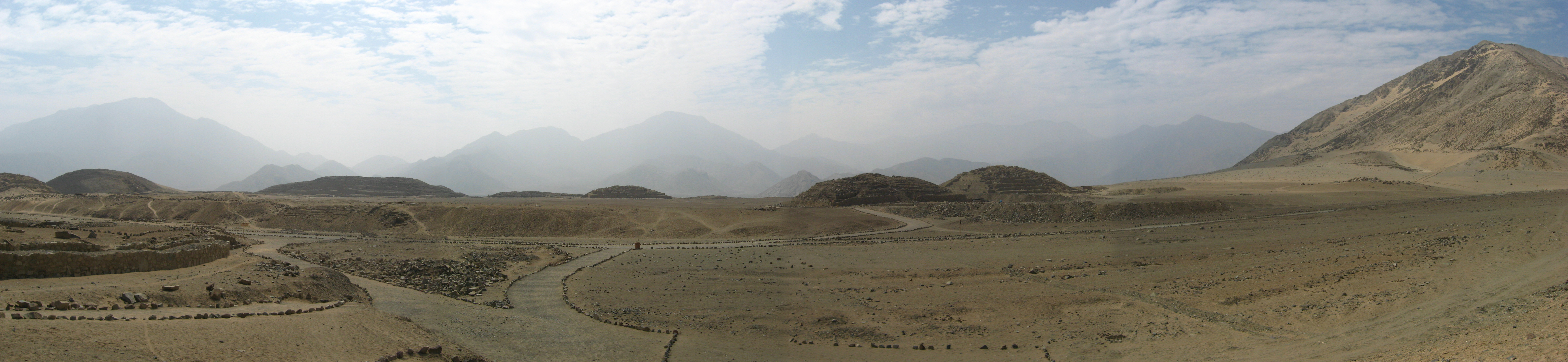 Wide view of the ruins at Caral, the most excavated ruins of the oldest known civilization in the Americas, the Norte Chico civilization. The Norte Chico Civilization is believed to have started around 3500 BC on the coast and the city of Caral was inhabited from 2627 BC to 2020 BC.